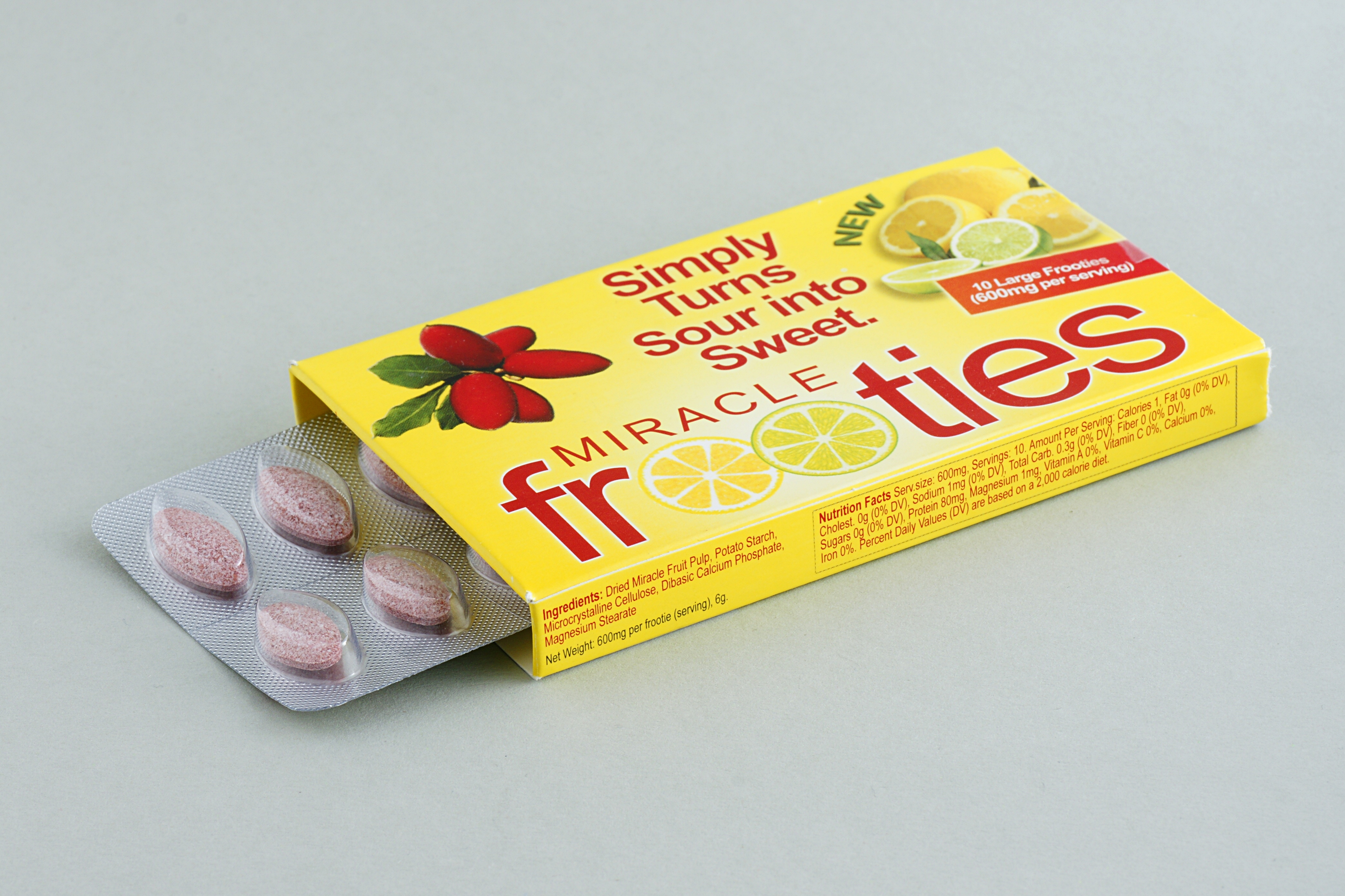 Miracle Frooties, freeze-dried miracle fruit in tablet form.